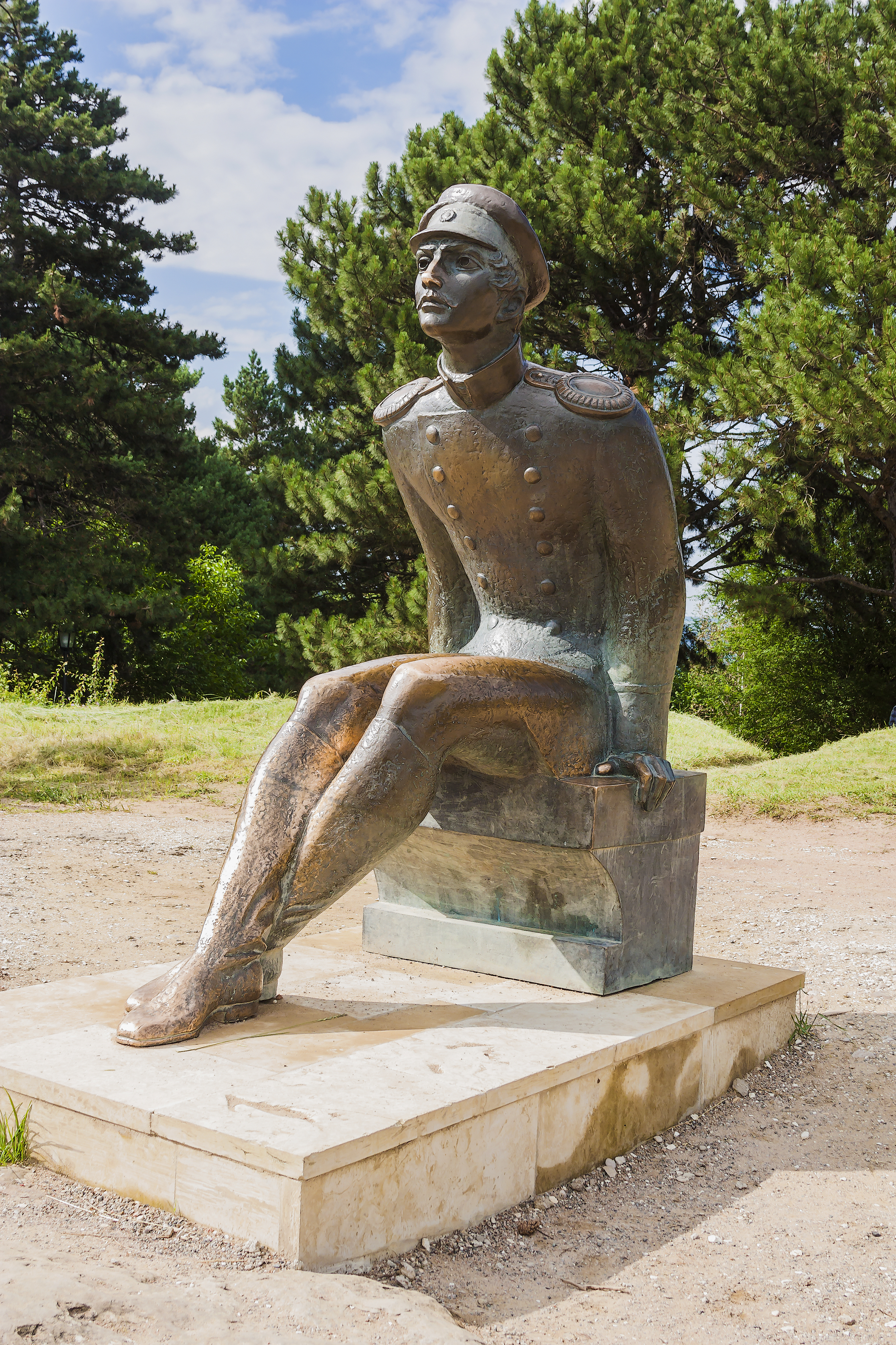 Monument Lermontov M. Yu.: Karl Marx street, path No. 1, across the river Olkhovka, Kislovodsk, Stavropol Krai